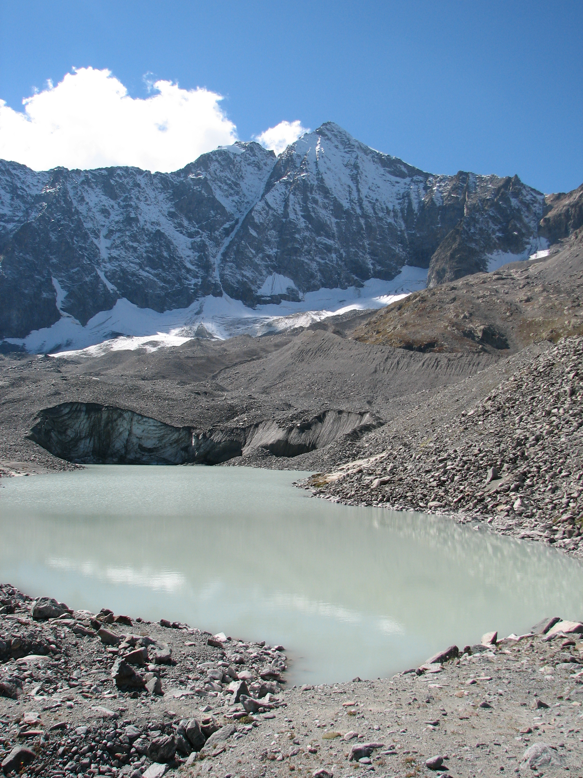 The Glacier d'Arsine, with its lake, in Parc National des Écrins. Picture taken the 21st of November, 2005.